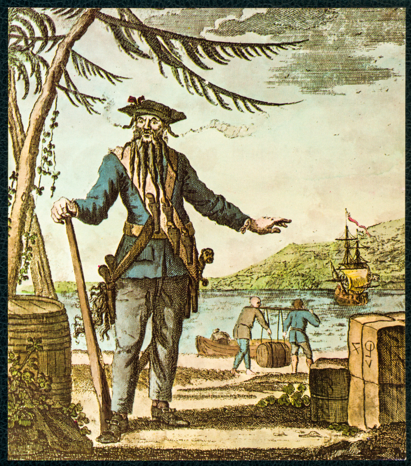 see File:Edward Teach Commonly Call'd Black Beard (bw).jpg